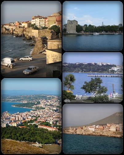 A Collage of City of Sinop, Turkey.